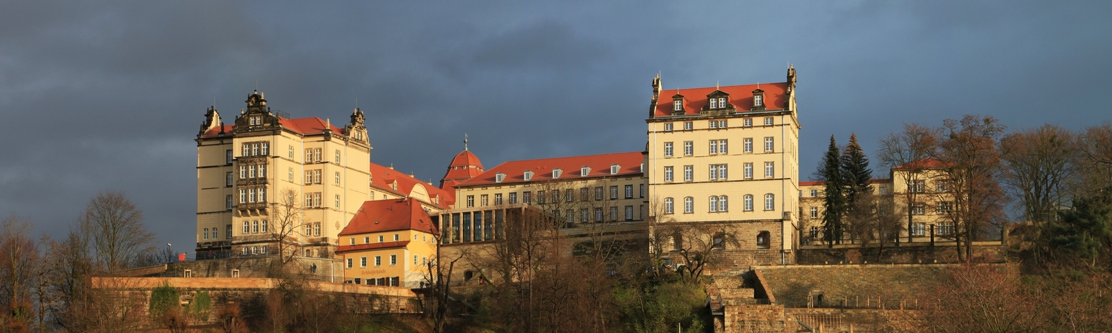 This image shows Sonnenstein Castle after completion of the adaptive reuse as seat of the government of the district Sächsische Schweiz-Osterzgebirge.